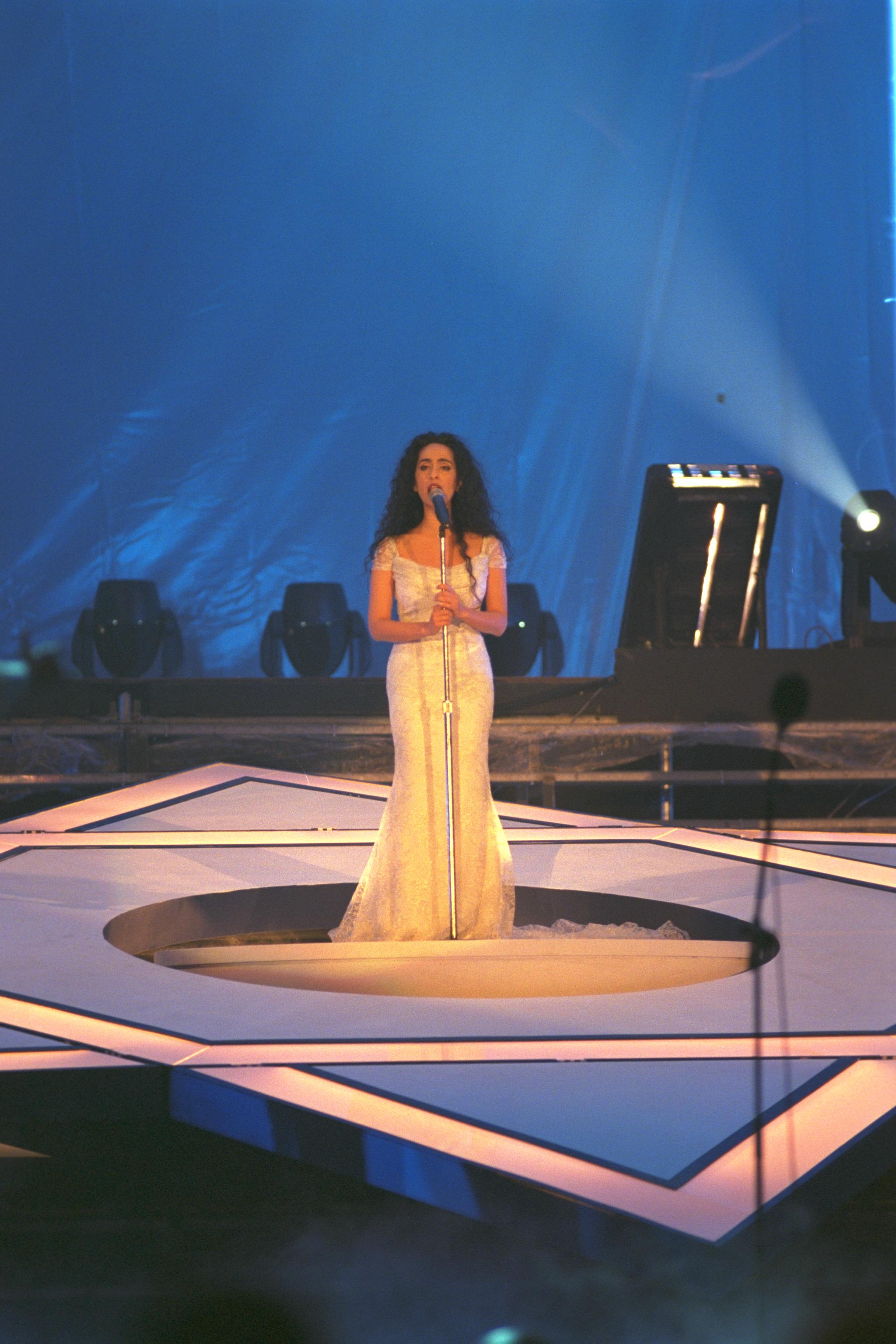 Singer Rita singing the national anthem Hatikva at the Jubilee Chimes Performance, in honor of the 50th Independence Day of the State of Israel. ריטה שרה את ההמנון הלאומי במופע פעמוני היובל לכבוד יום העצמאות ה-50 של מדינת ישראל Photo: AMOS BEN GERSHOM, 04/30/1998